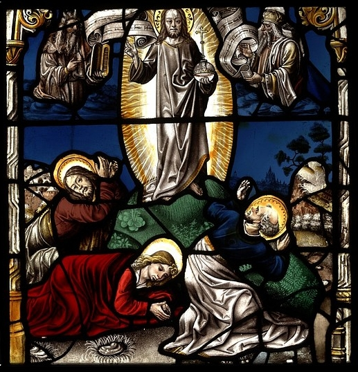 The Transfiguration, stained glass from Mariawald Abbey